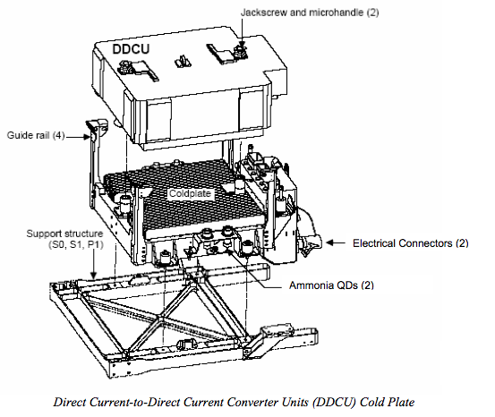 DDCU cold plate design